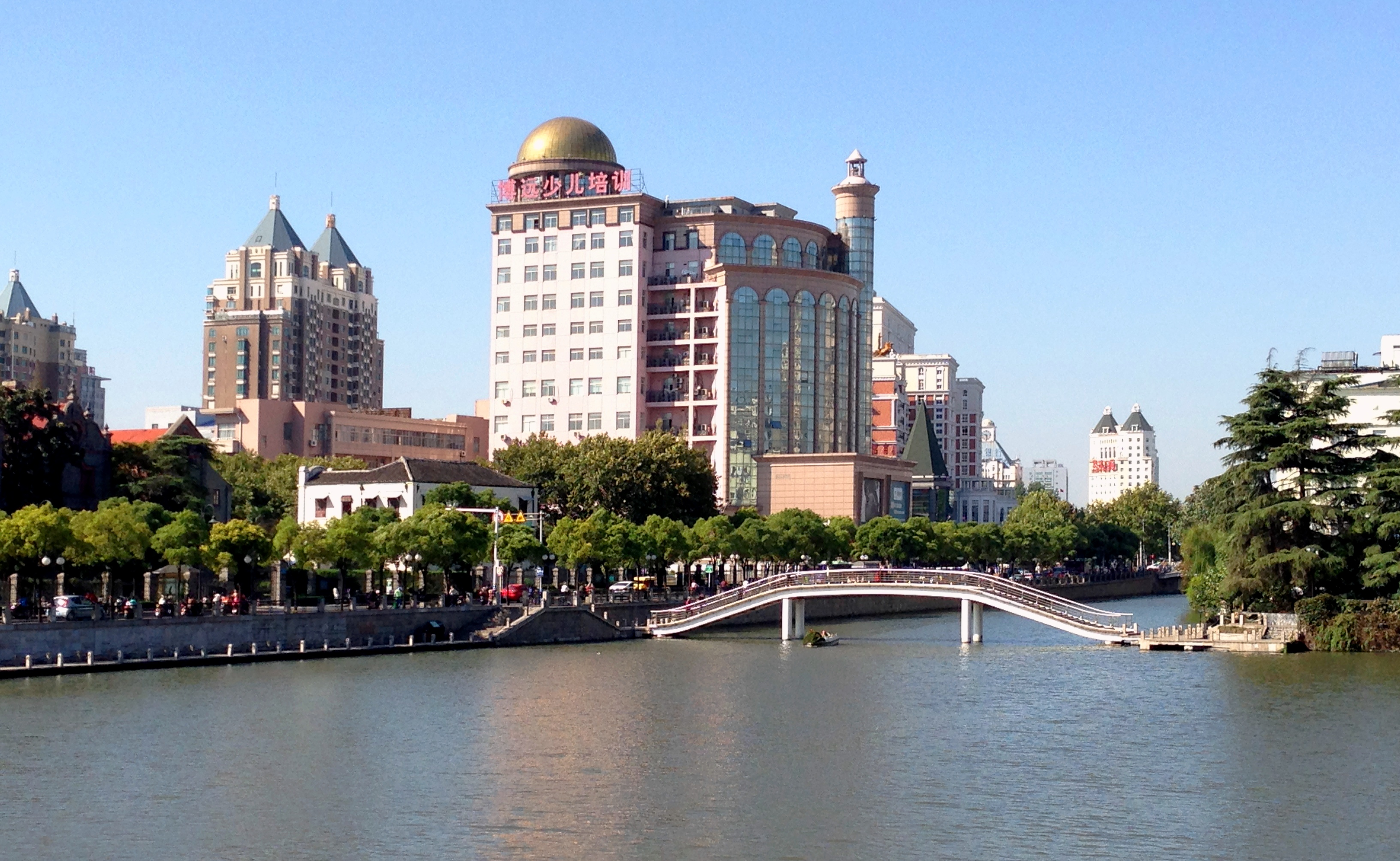 Nantong,is a prefecture-level city in Jiangsu province, People's Republic of China.